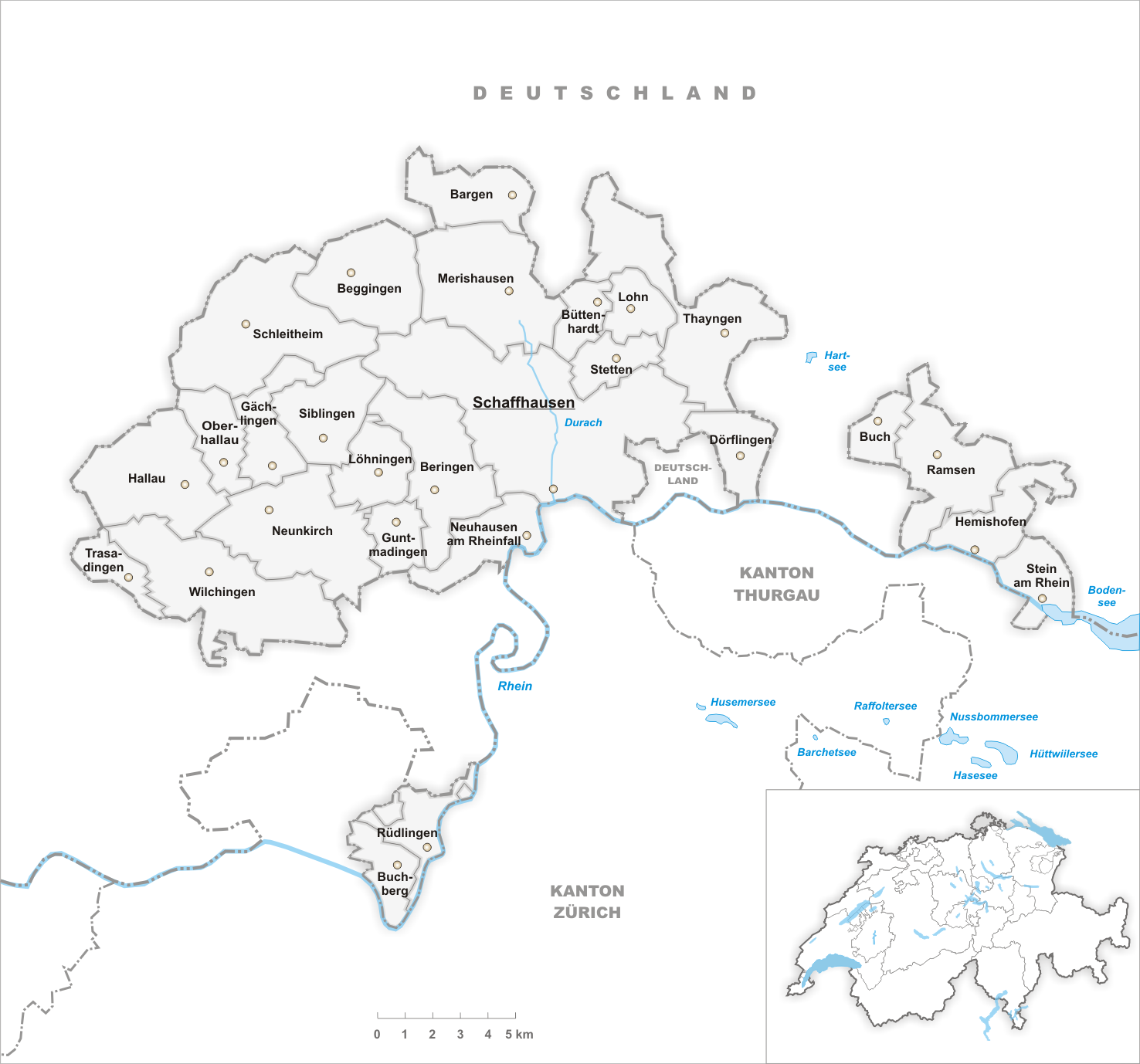 Municipalities in the canton of Schaffhausen from 2009